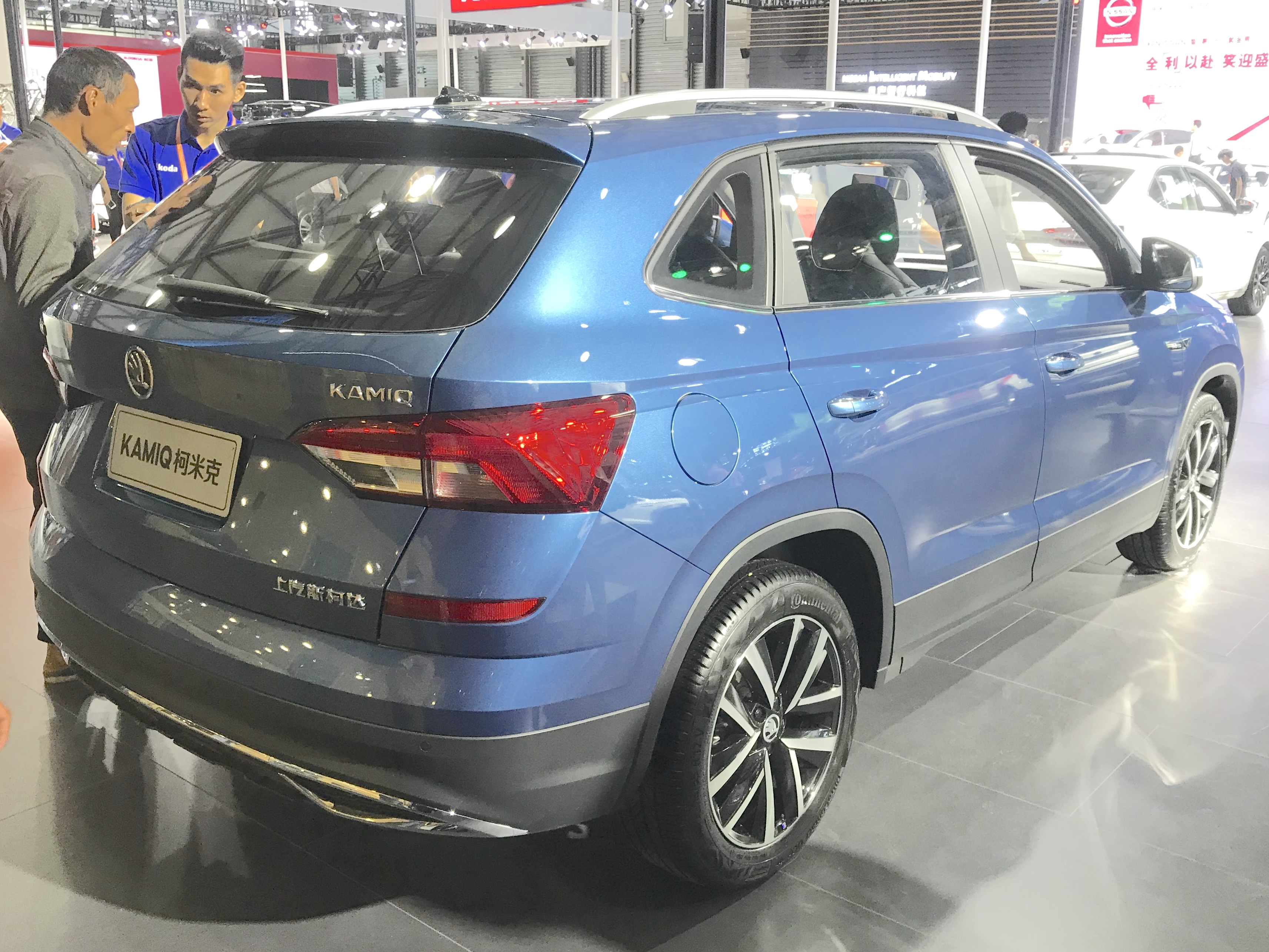 Skoda Kamiq rear